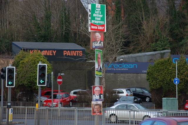 Vote for ME . . . . . . no vote for ME. These election posters are on a lamppost near the Union Bridge in Lisburn. Under the system of PR used in NI you can vote for them all. What you cannot do is vote for the lamppost . . . .